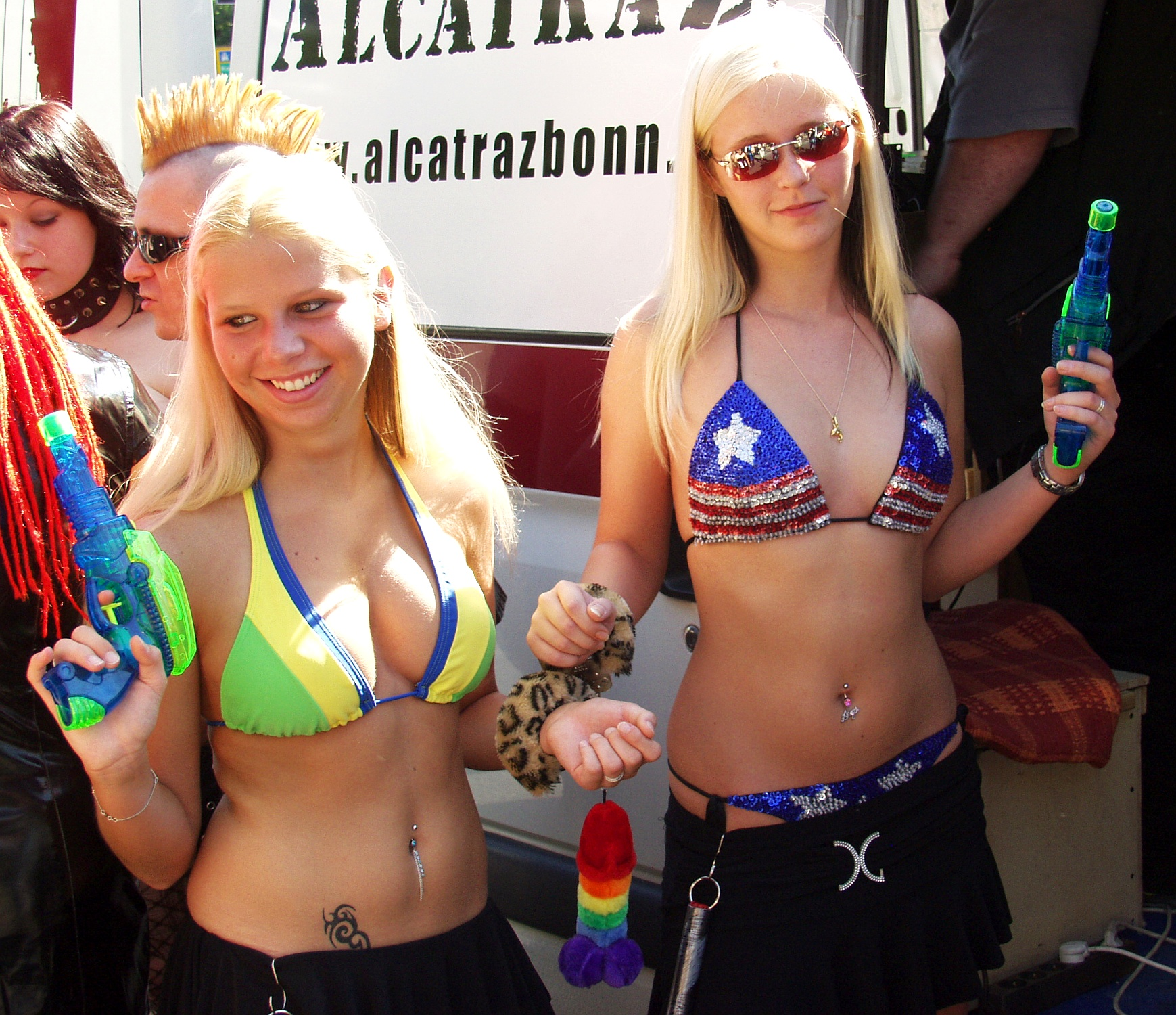 Members of the Christopher Street Day demonstration - ColognePride 2006